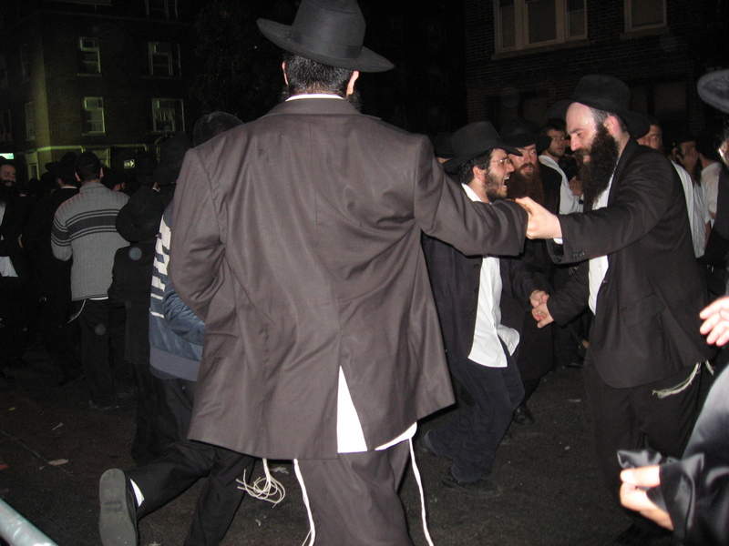 Orthodox Jews at Crown Heights